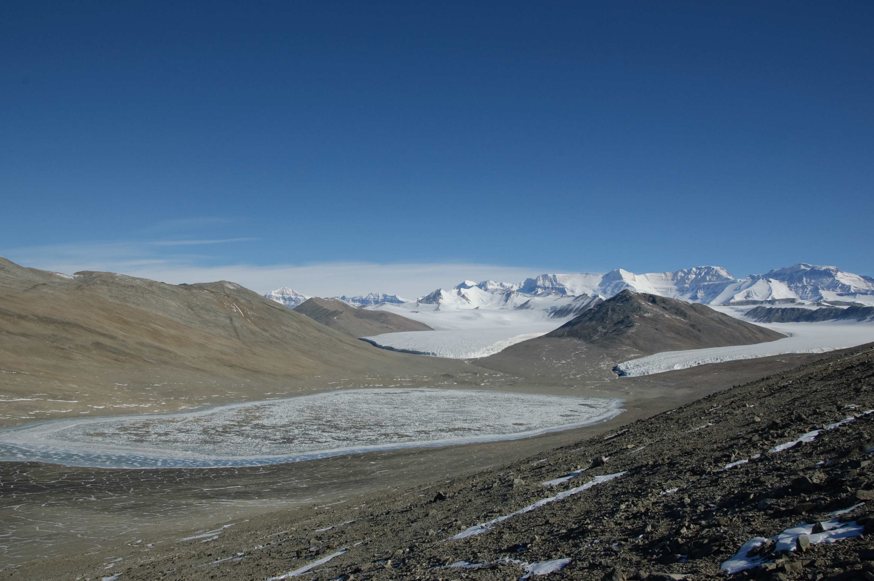 An overview of the upper Miers Valley with Adams glacier on the left and Miers glacier on the right.